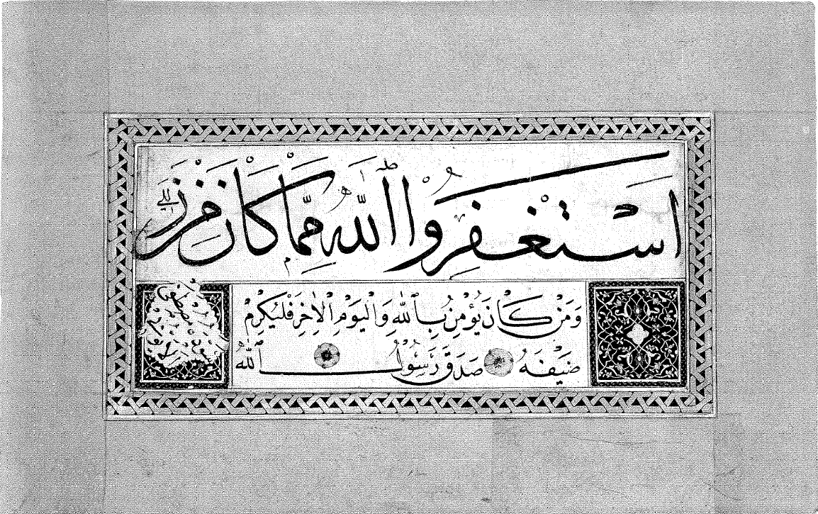 Kit'a, Sulus and Nesih, Ink, Colors and Gold on Paper mounted on Cardboard size:14.1×22.4 cm